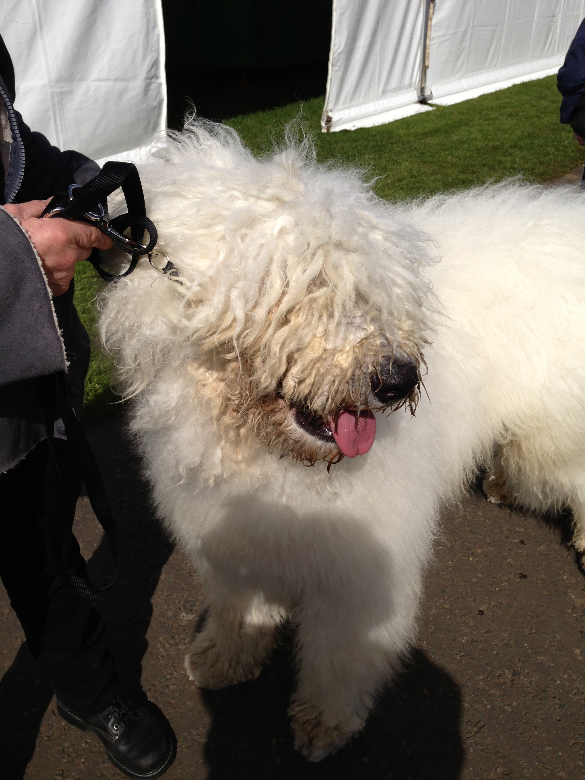 One year old male Komondor